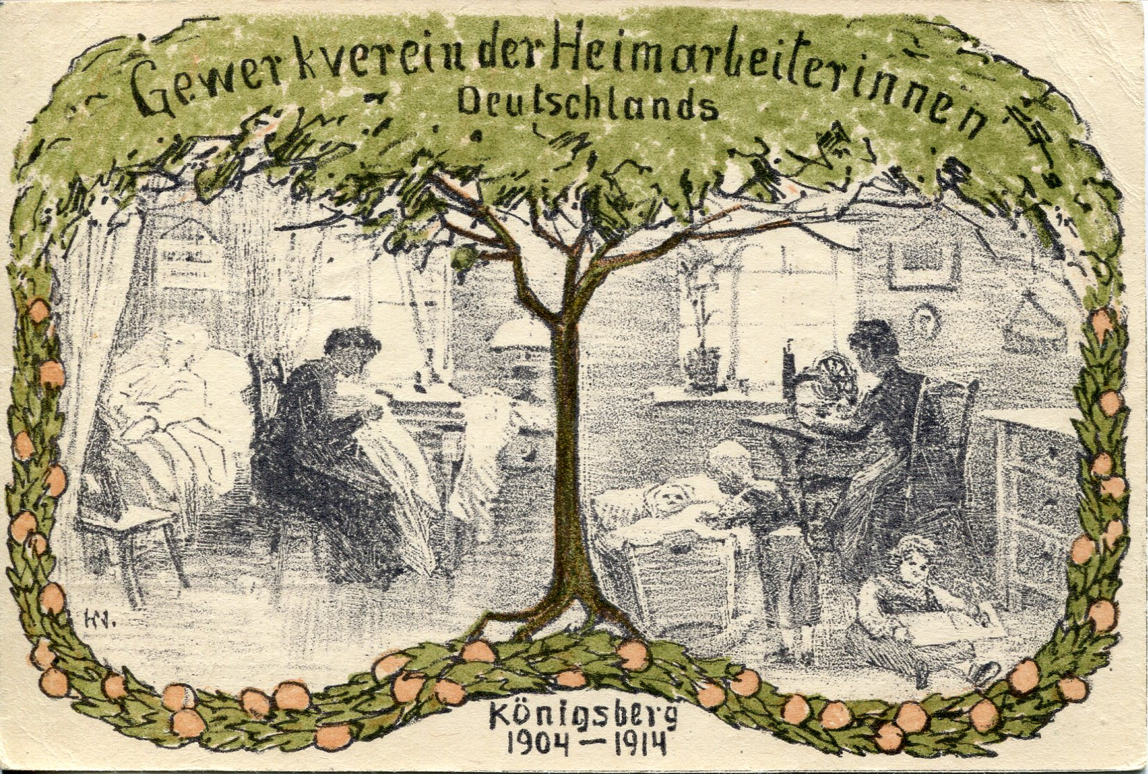 Original Postcard, a Grafic of Helene Neumann, showing the "Gewerkverein der Heimarbeiterinnen" from Rauschen, todays Svetlogorsk, Russia